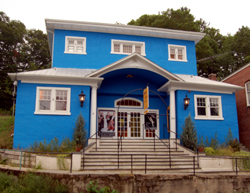 Roy's Hall, built in 1913 as a silent movie theater, is now the home of the Blairstown Theater Festival. (Photo by Robert Armin)